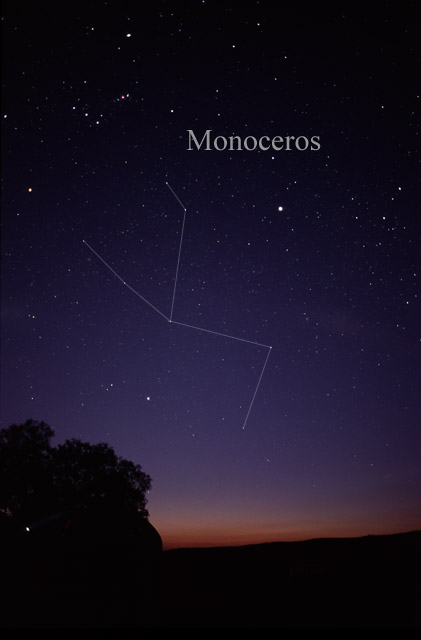 Photography of the constellation Monoceros, the unicorn